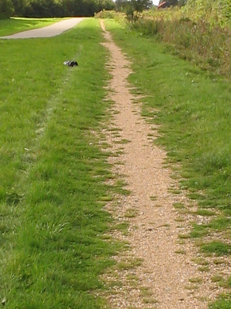 Walking trail in the Abtwoudse forest.